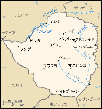 Map of Zimbabwe, in Japanese, from the United States Central Intelligence Agency's World Factbook